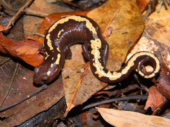 Bolitoglossa mulleri at Playan de la Gloria (Chiapas, Mexico)